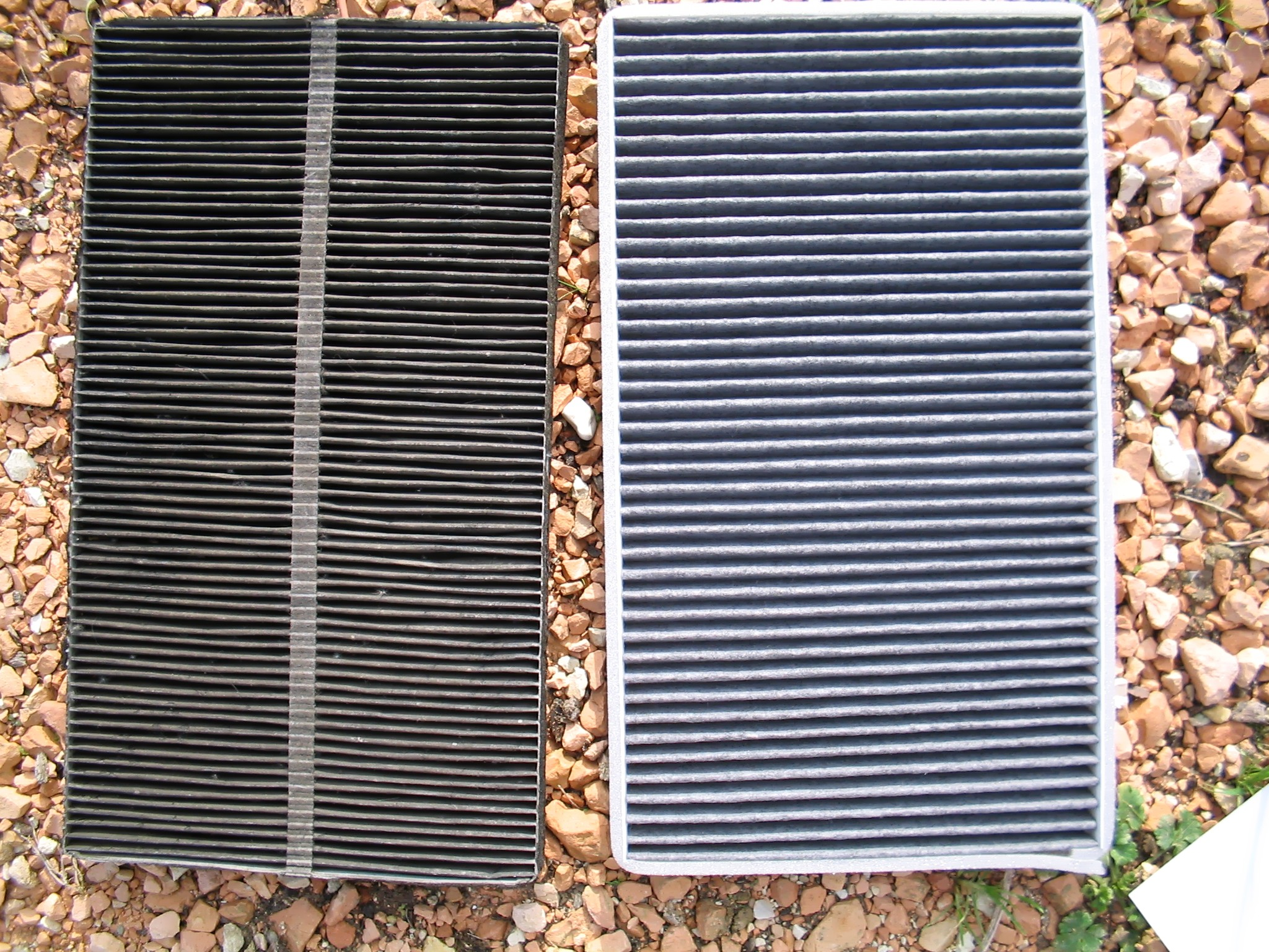 Cabin filter with activated carbon, left at the end of life cycle, right again.